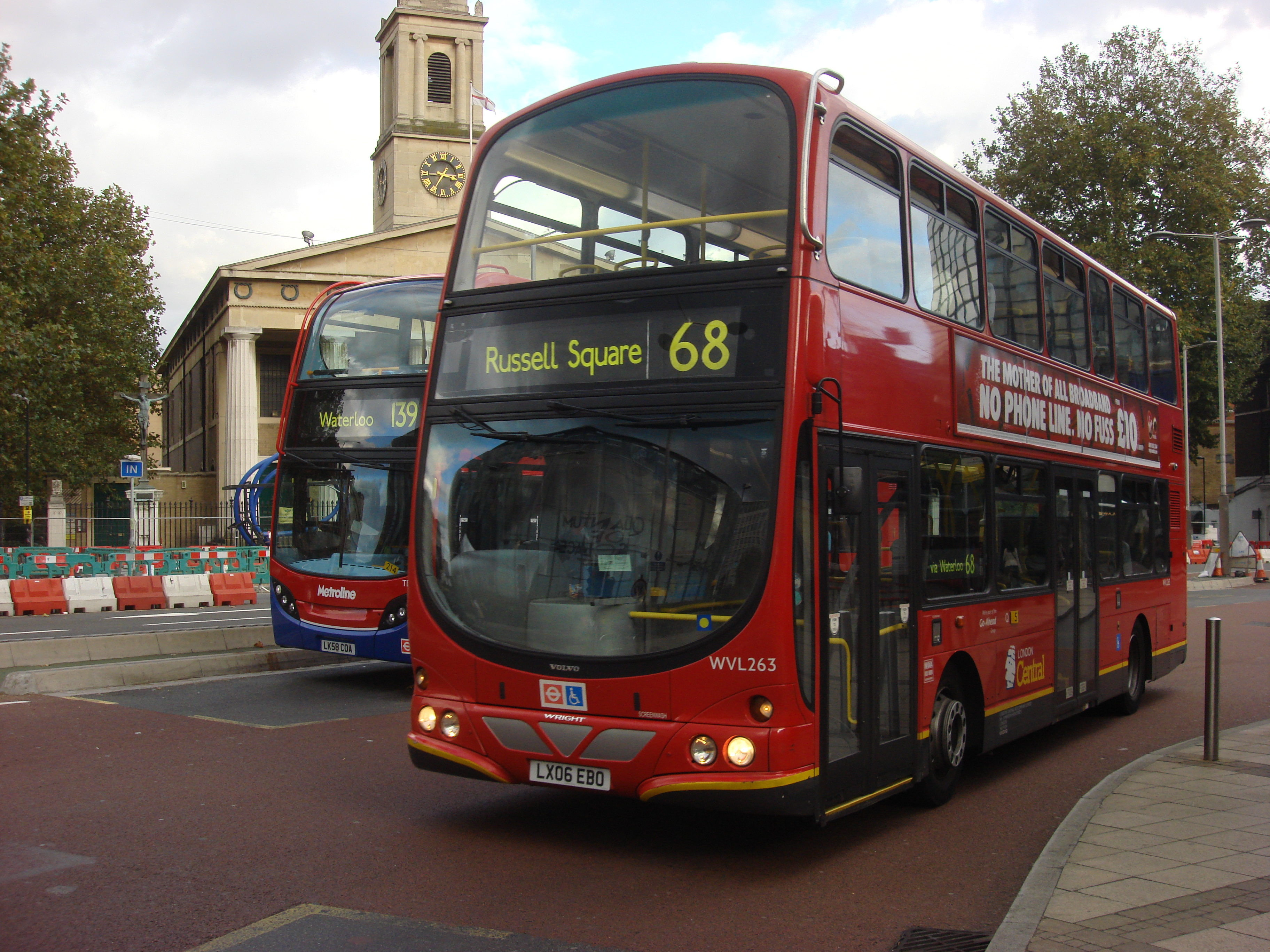 A bus on London Buses route 68.